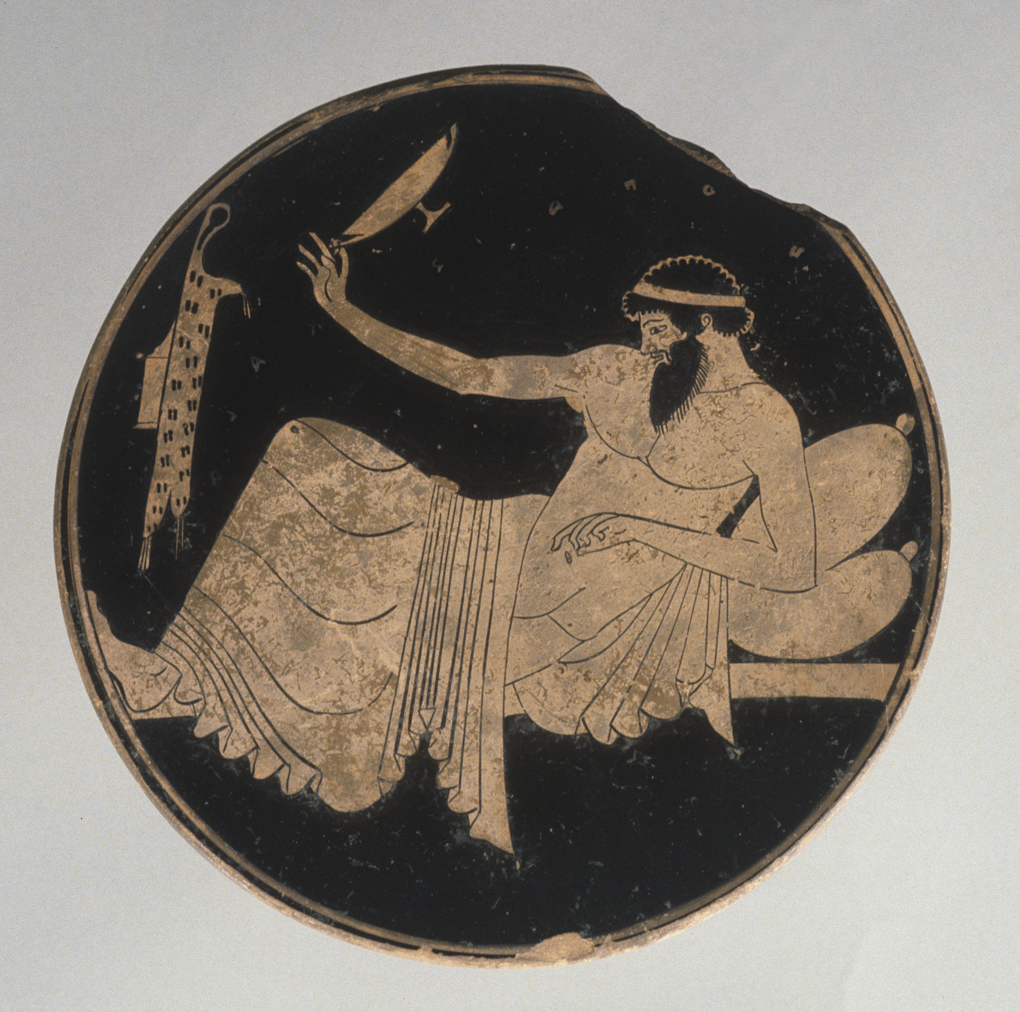 Red-figured plate; bearded symposiast playing kottabos (reclining with pillow at his back, holding up kylix and wreath, skin on wall); black paint on back; one wide and one narrow band; style of Duris. This type of object is sometimes referred to as a pinax (pl. pinakes). "Note that the Bryn Mawr Painter did not initially intend to decorate this plate with a kottabos player, since he originally sketched the komast's right forearm more horizontally." The inscription on the plate "HO PAIS KALOS" reads "the boy is beautiful," a common phrase on late archaec/early classical sympotic pottery, sometimes naming individuals.